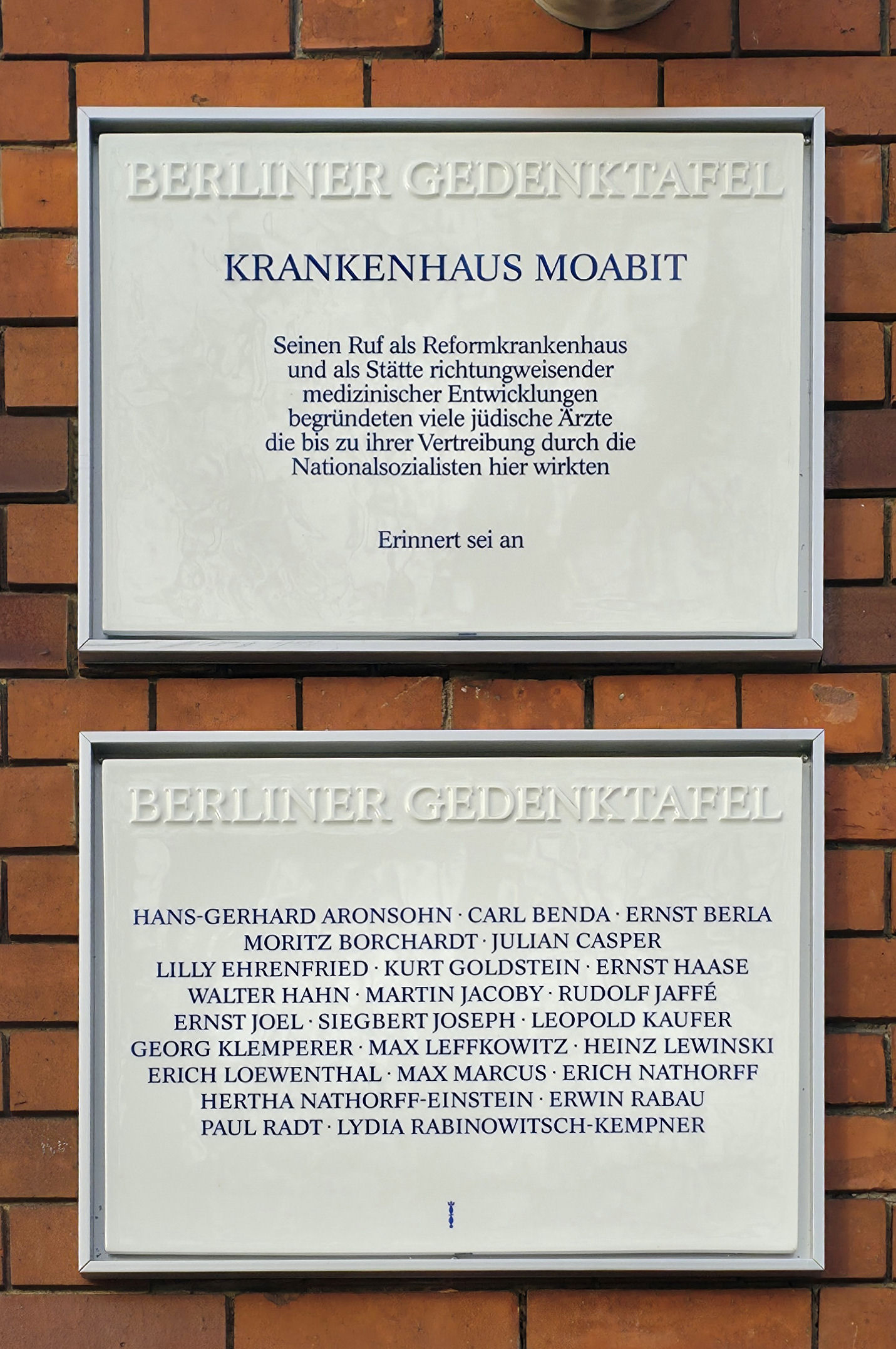 Berlin memorial plaque, Jüdische Ärzte, Turmstraße 21, Berlin-Moabit, Germany